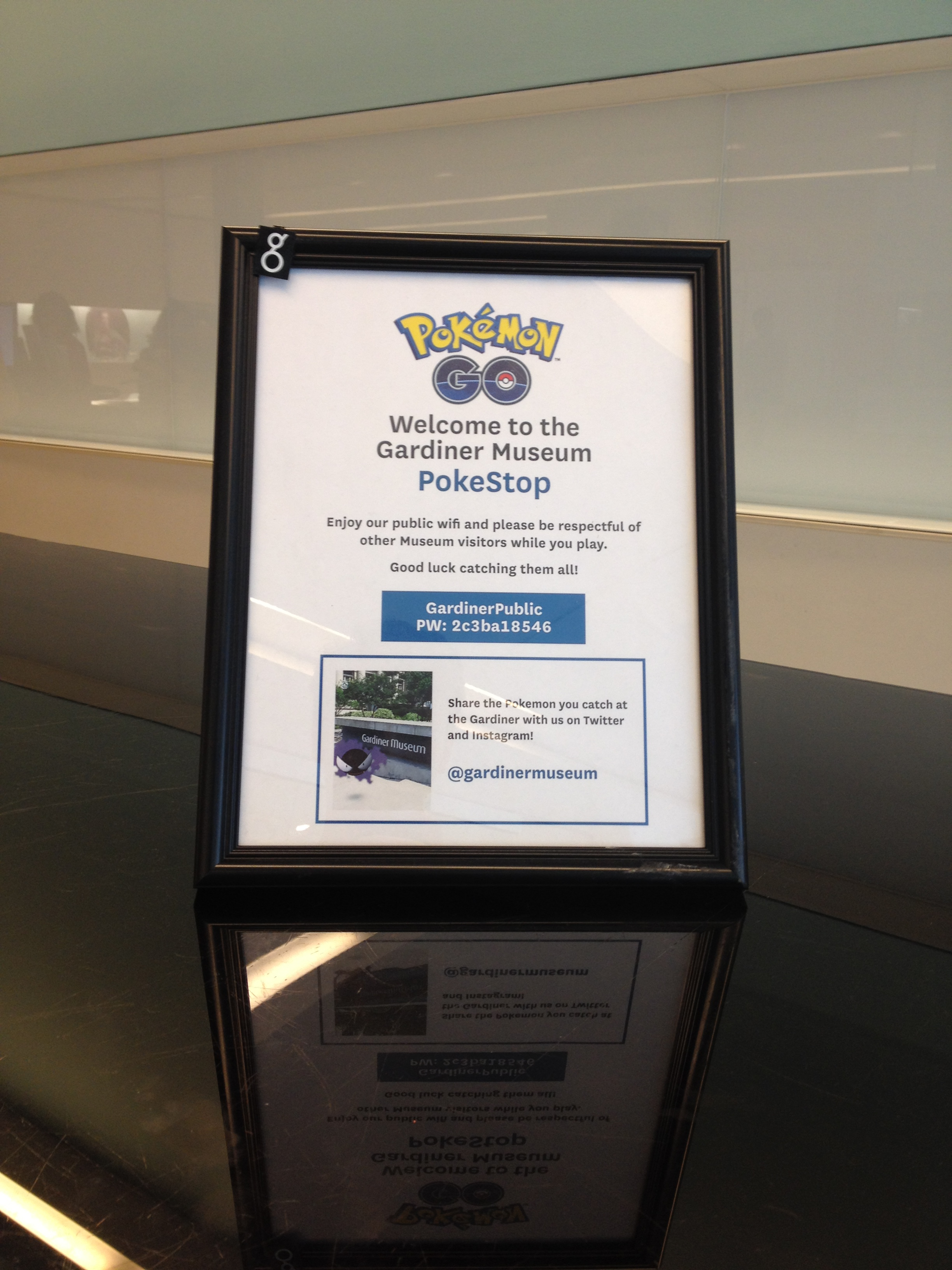 Pokemon Go at the Gardiner Museum. Gardiner Museum PokeStop. GardinerPublic. PW 2c3ba18546.